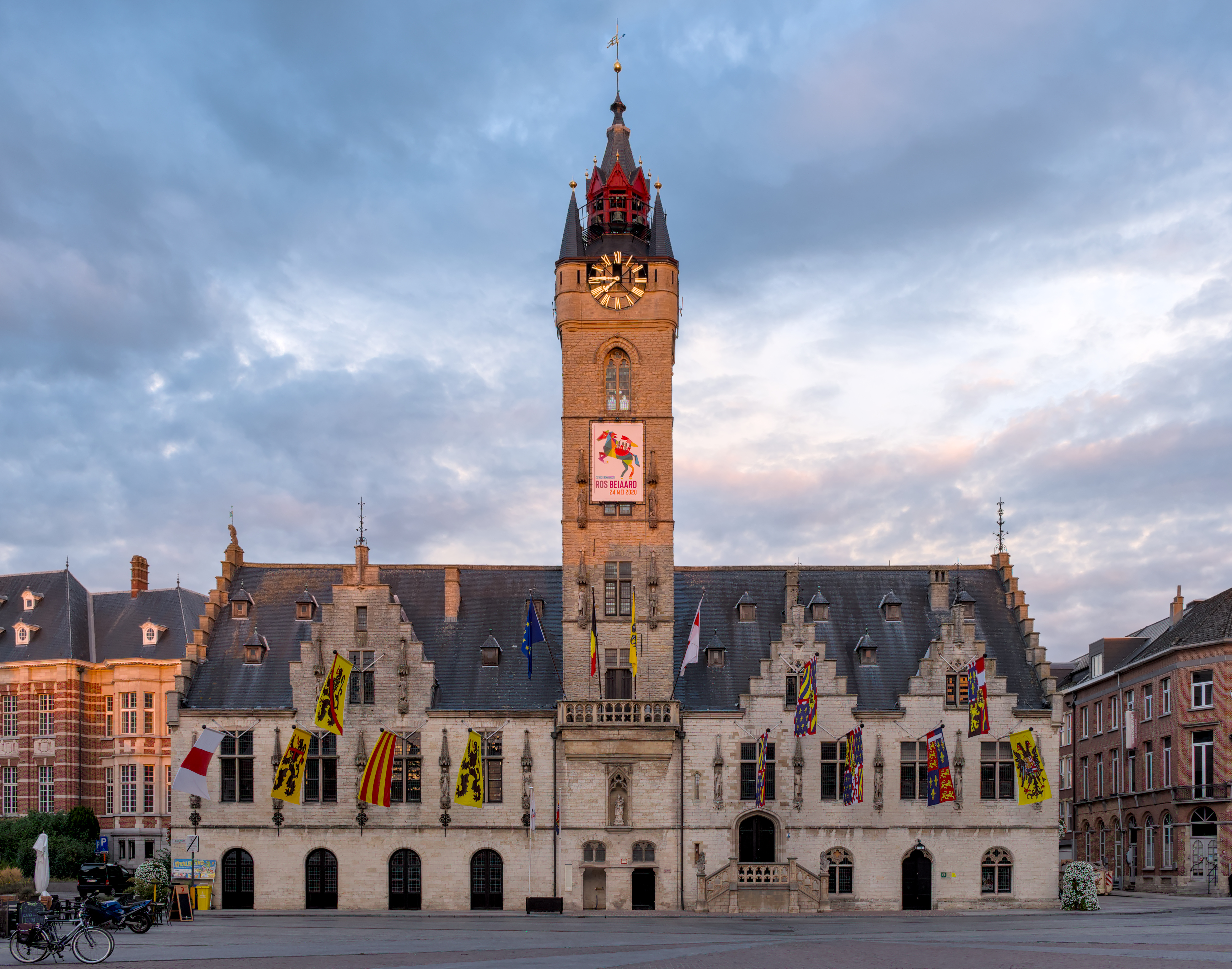 Dendermonde town hall and belfry during golden hour This photo of immovable heritage has been taken in the Flemish Region This place is a UNESCO World Heritage Site, listed as Belfries of Belgium and France.